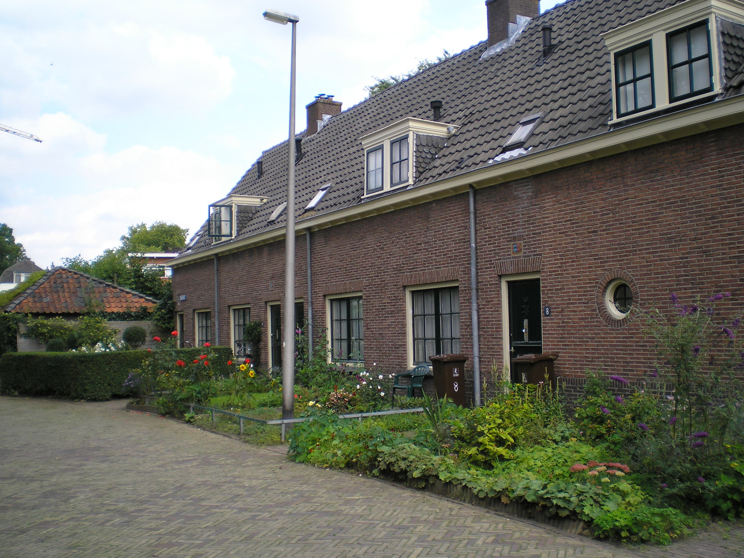 Wulpstraat 8 in Utrecht in the Netherlands